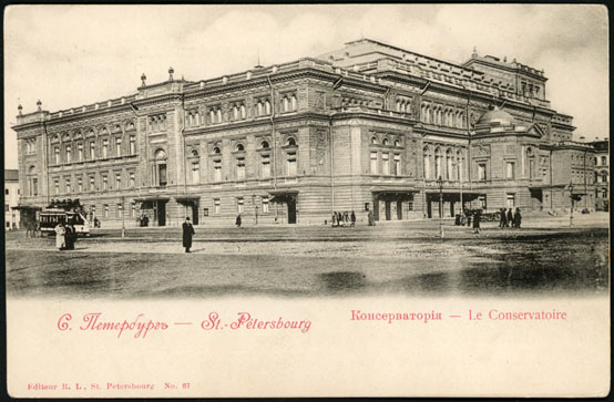 Saint Petersburg (Russia), Saint Petersburg Conservatory.